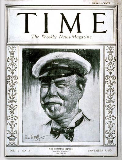 TIME Magazine Cover Featuring Sir Thomas Lipton (3 Nov 1924)